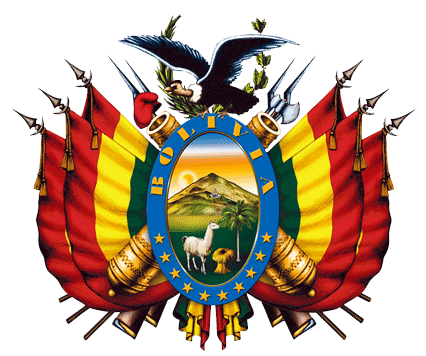 Coat of arms of Bolivia